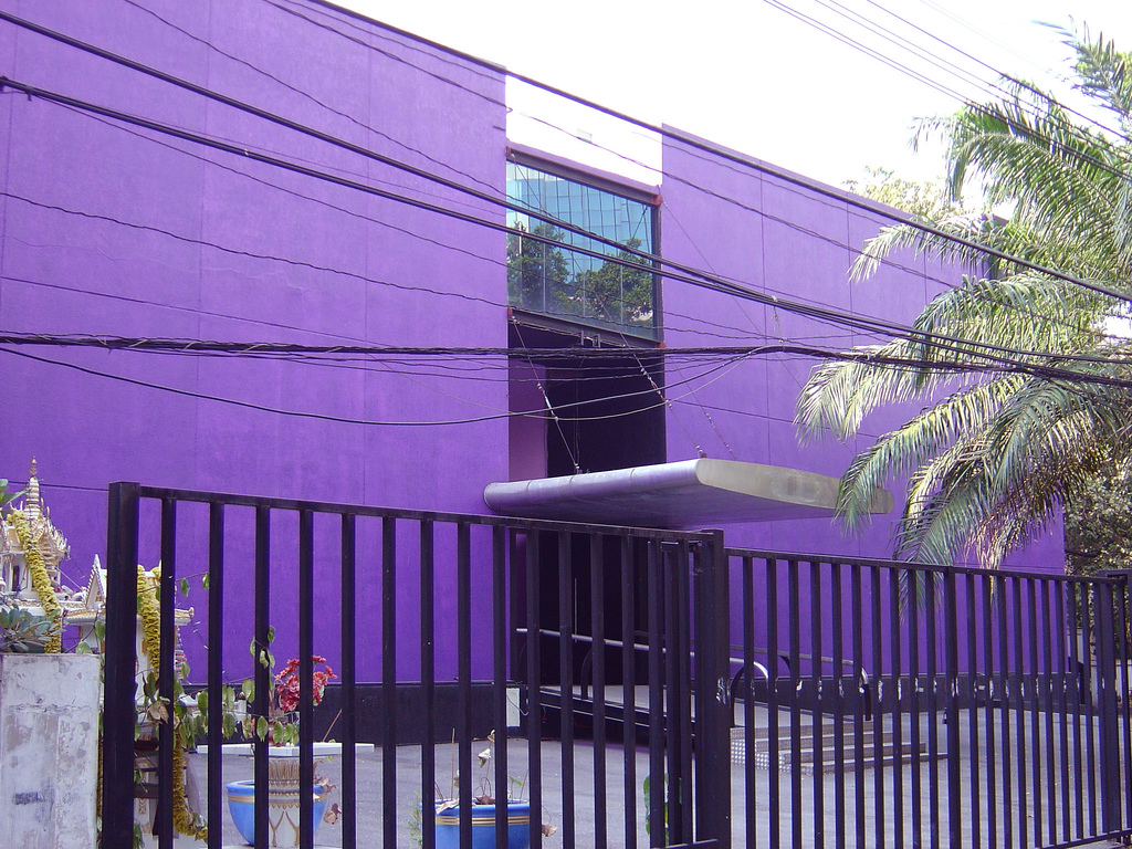 Ministry of Sound, club Bangkok